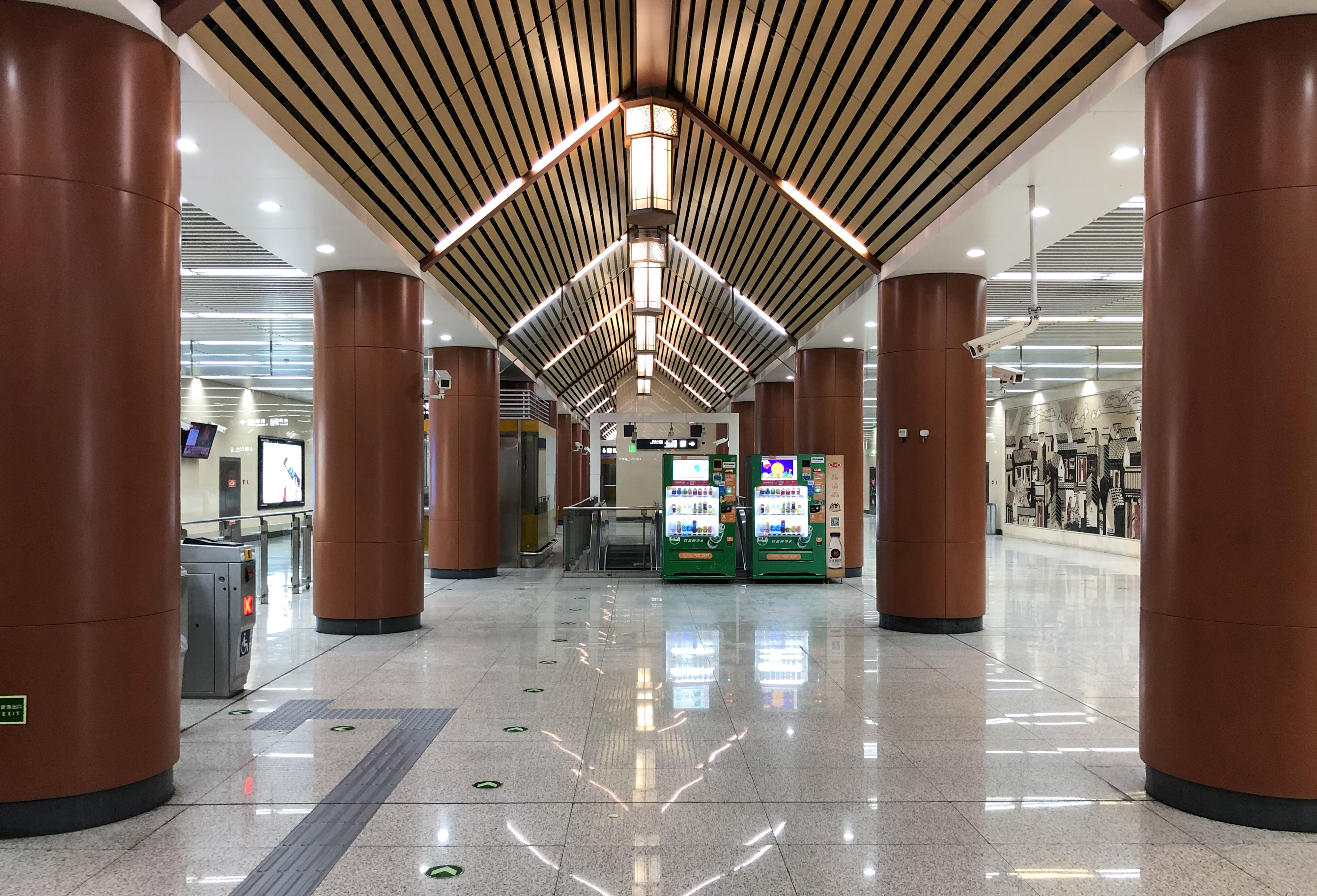 Today still for the curve.